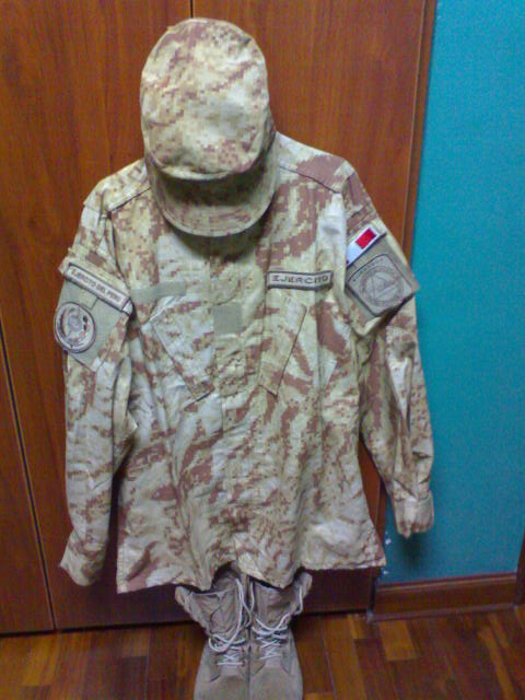 Pacipat (Pacific Pattern - Peruvian design); 18° Tank Brigade Uniform